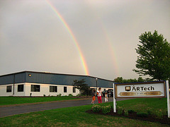 A picture of Northfield School of Arts and Technology.